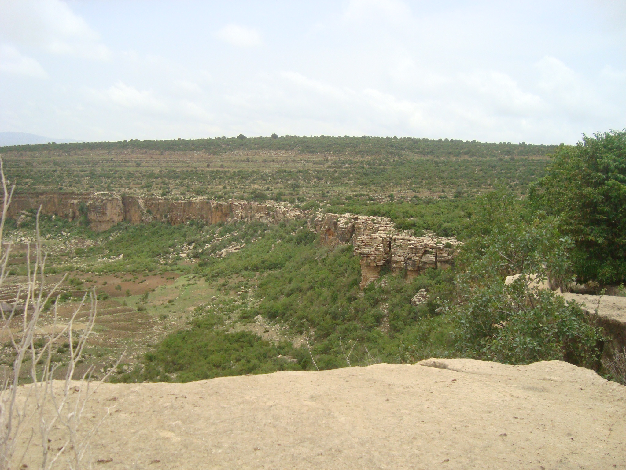 Antalo Limestone cliff in Mishlam, woreda Dogu'a Tembien, Tigray, Ethiopia